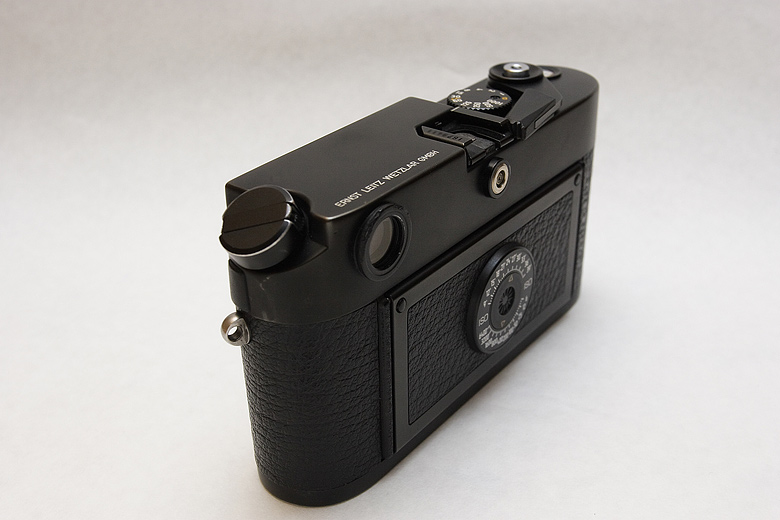 Leica M6 "classic", early production model from Wetzlar.